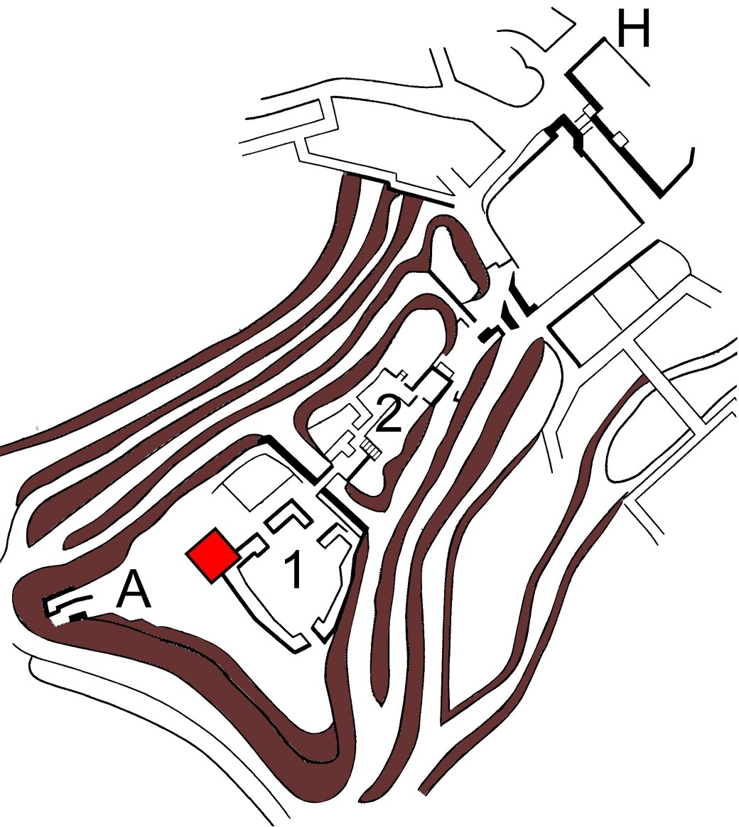 Layout of Komoro Castle